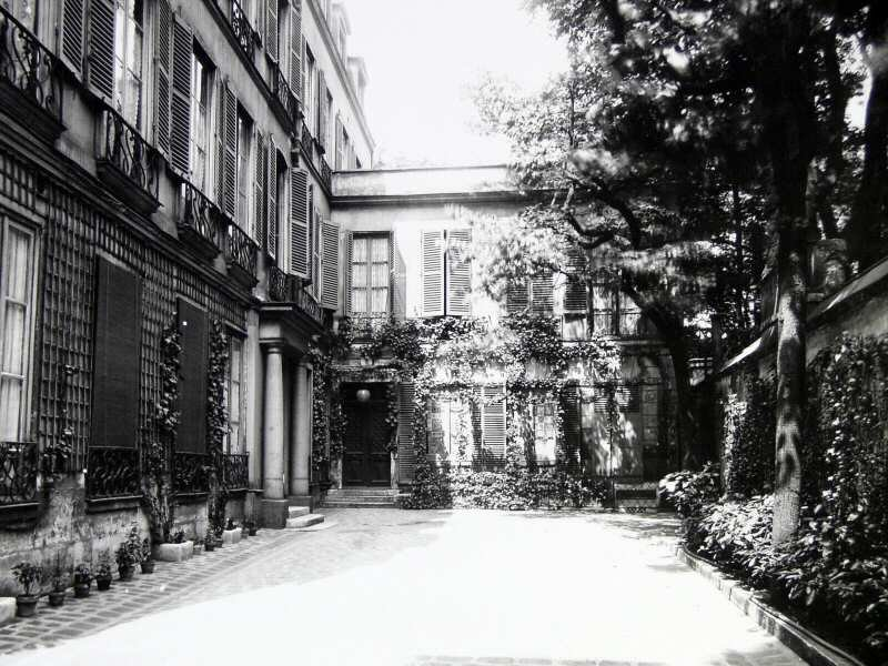 Pavillon at 20, Rue Jacob